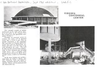 Centennial Dome by Walter Dorwin Teague. Scan from United States Government Civil War Centennial Commission newsletter, 1961.